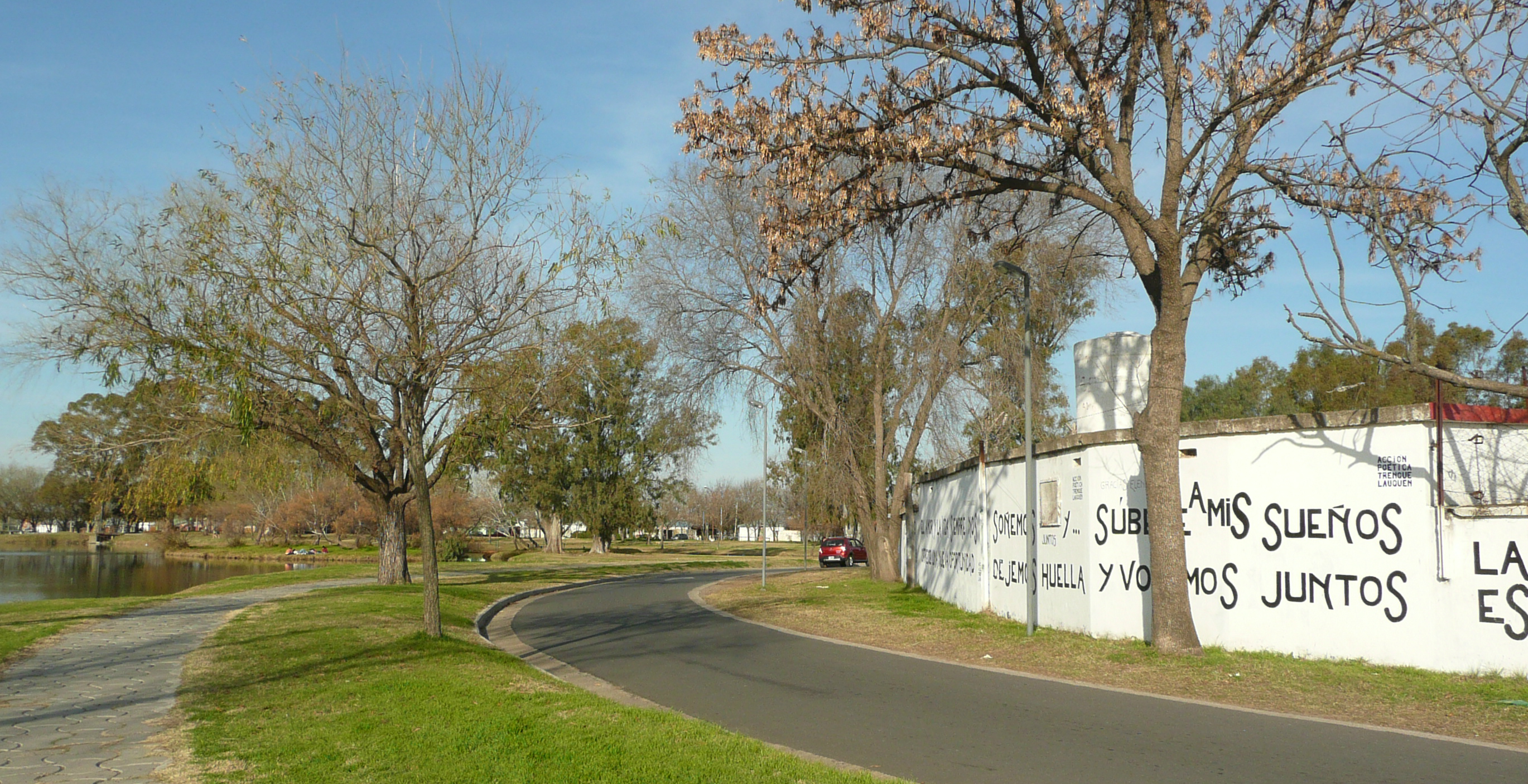 Trenque Lauquen town, Buenos Aires province, Argentina.